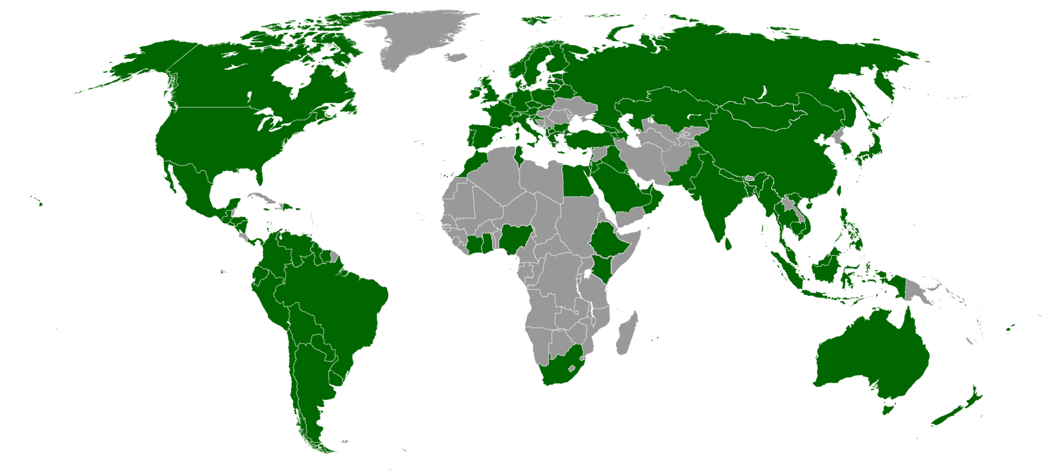 Worldwide map of Burger King locations